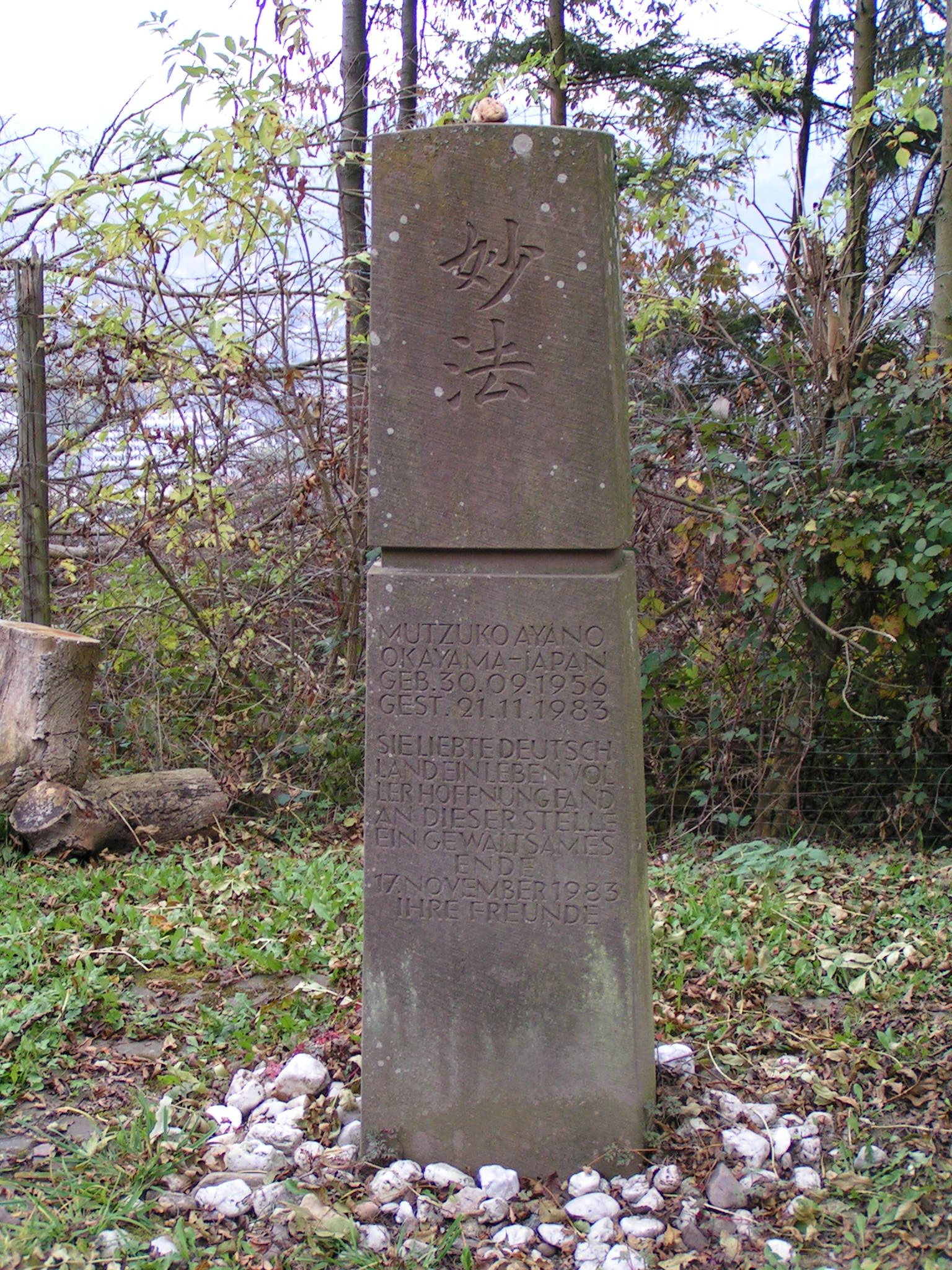 Memorial for Mutzuko Ayano, Trier, Germany